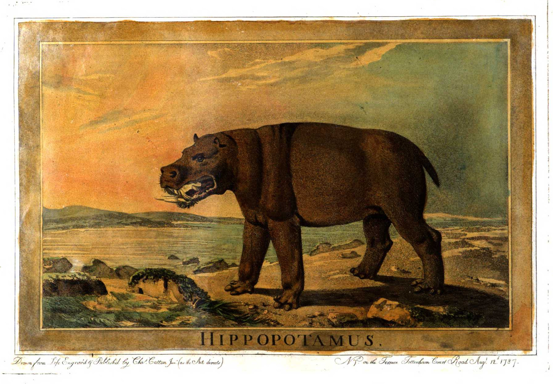 Illustration from Charles Catton the Younger Animals drawn from nature and engraved in aqua-tinta